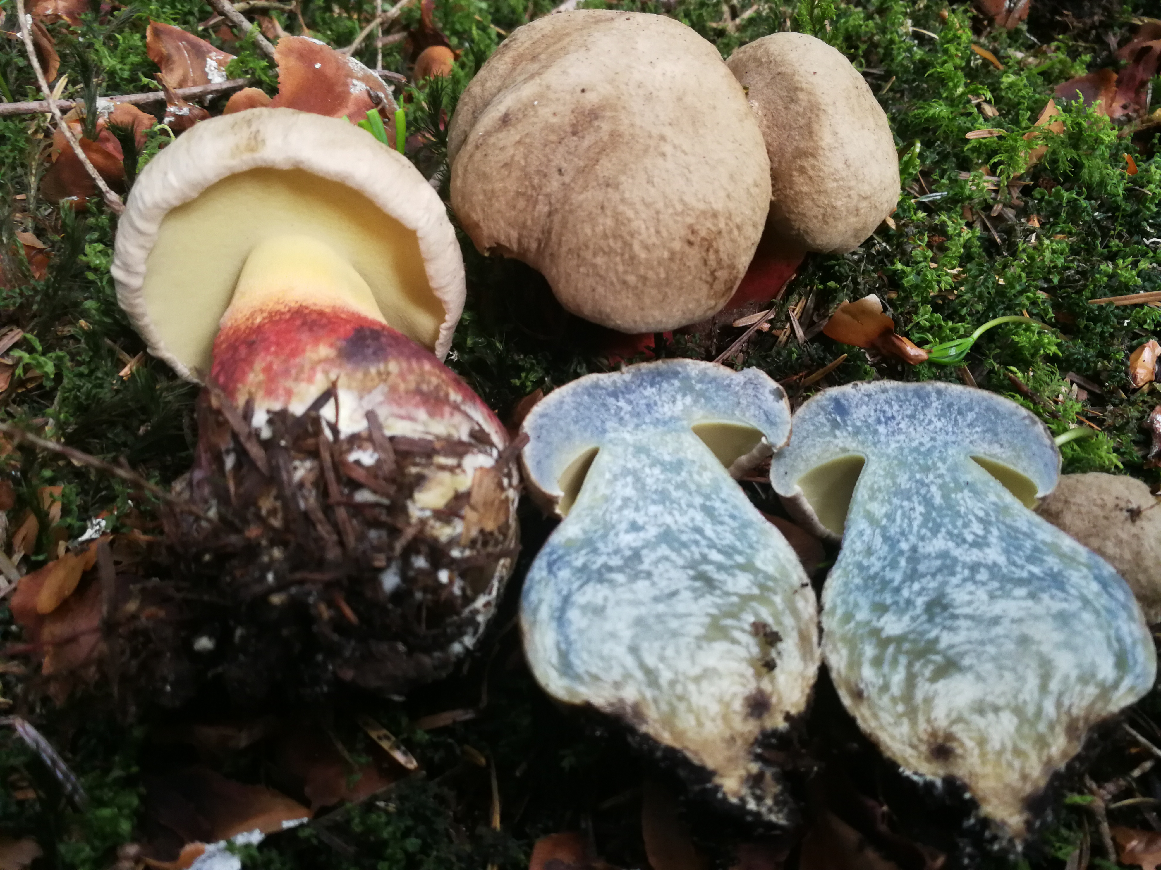 Fruiting body of Caloboletus caolpus